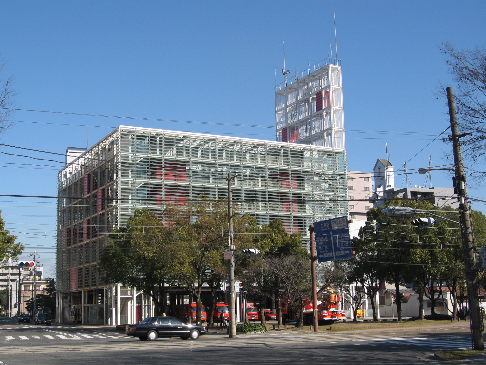 Nishi Fire Station, Fire Department City of Hiroshima, Japan